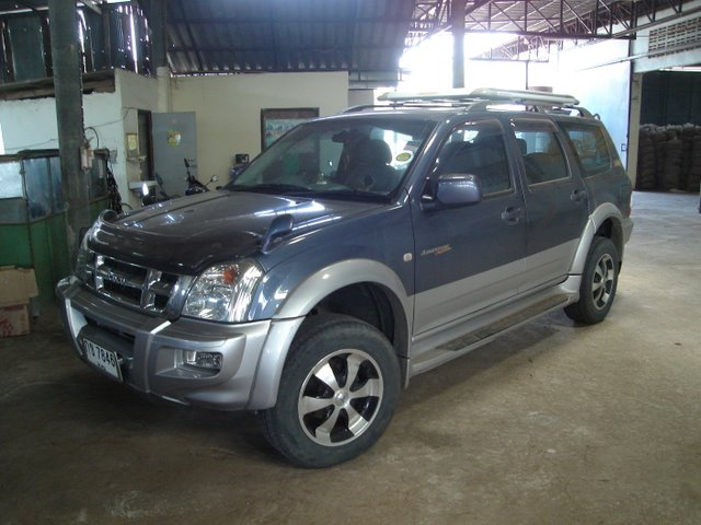 Thairung Adventure Master, based on Isuzu D-Max (body edited from D-Max) and not to be confuse with Isuzu MU-7. This model is licensed, so Thairung can keep Isuzu badge on car's front, and can use D-Max's front without edit. (Thairung convert pick-up to wagon or SUV.) Not original wheels/rims.